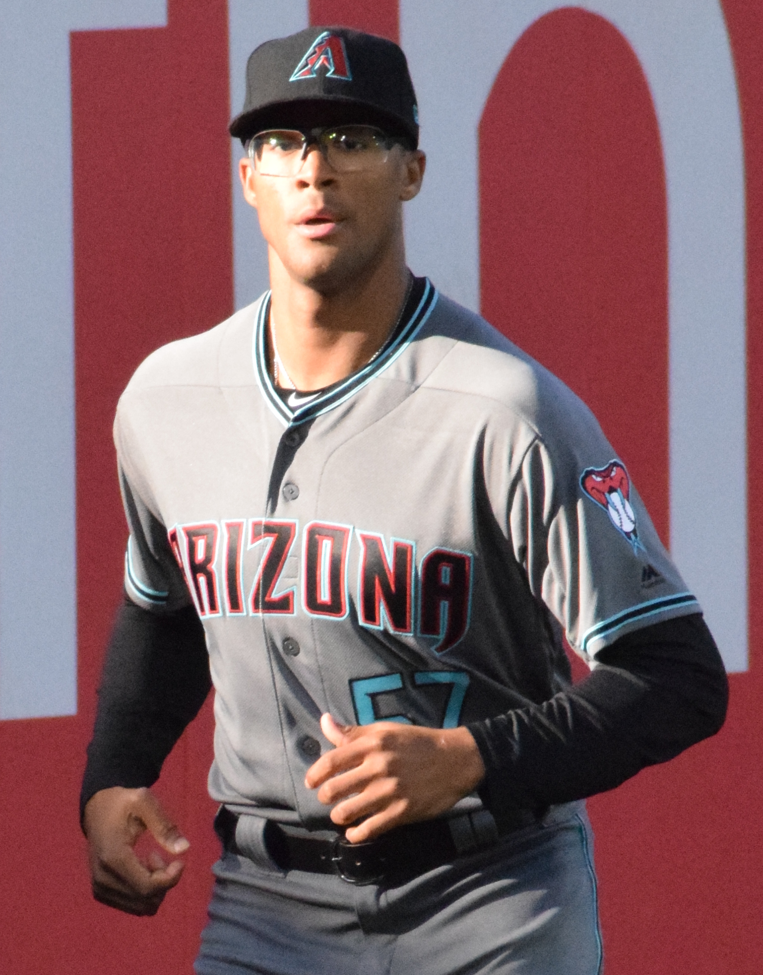 Jon Duplantier of the Arizona Diamondbacks before a 2019 game at Citizens Bank Park in Philadelphia